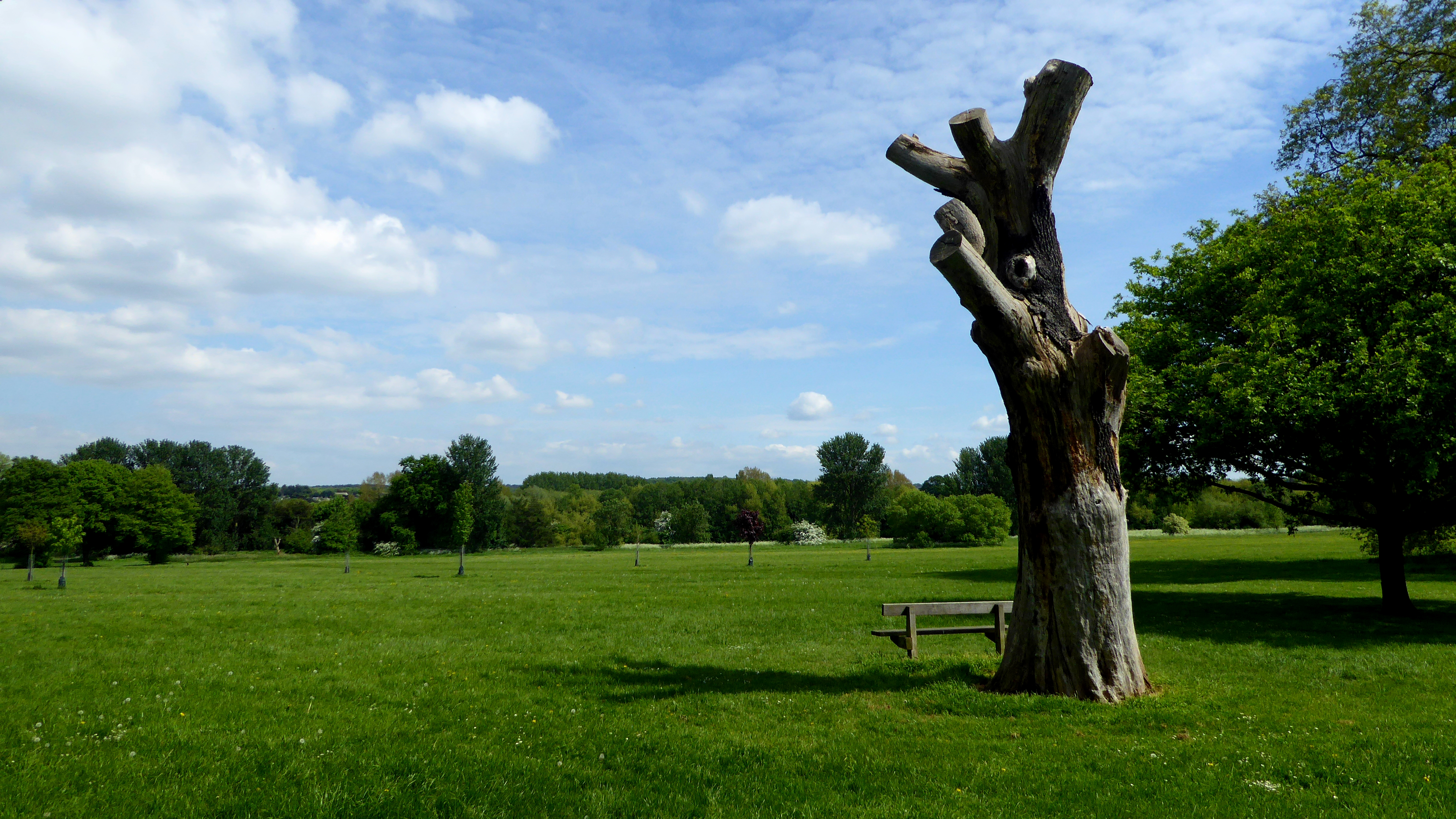 A dead tree in a field at Foots Cray Meadows, London Borough of Bexley.